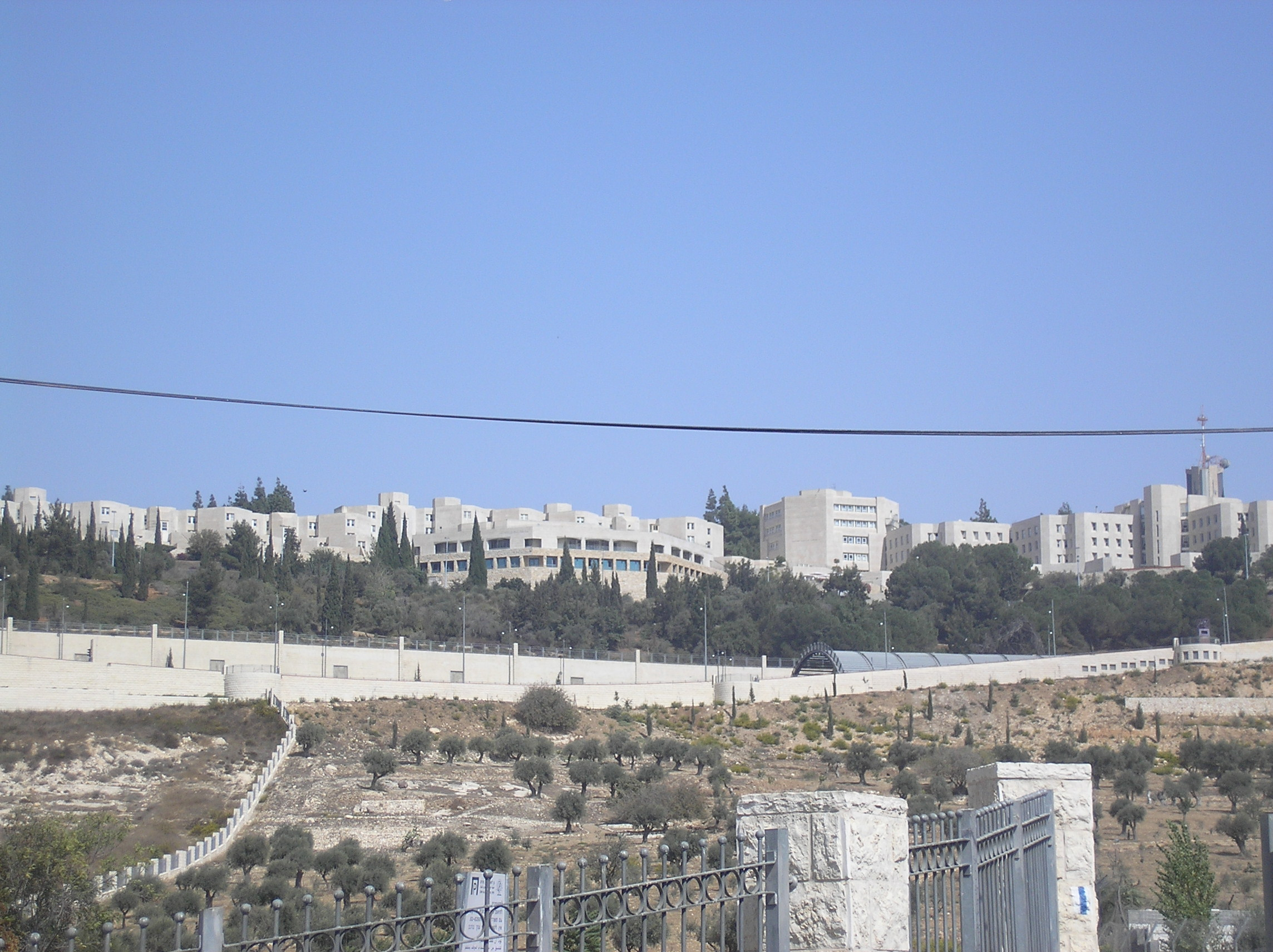 View from Zurim Vally to Mount Scopus (The Hebrew Univercity)